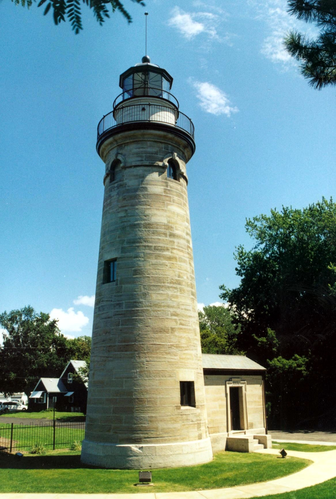 The Erie Land Lighthouse in Erie, Pennsylvania.